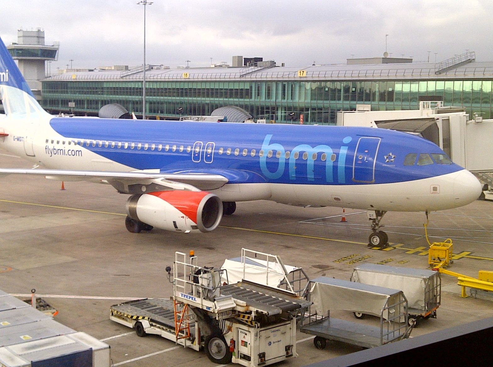 BMI Airbus A320 in Manchester Airport.